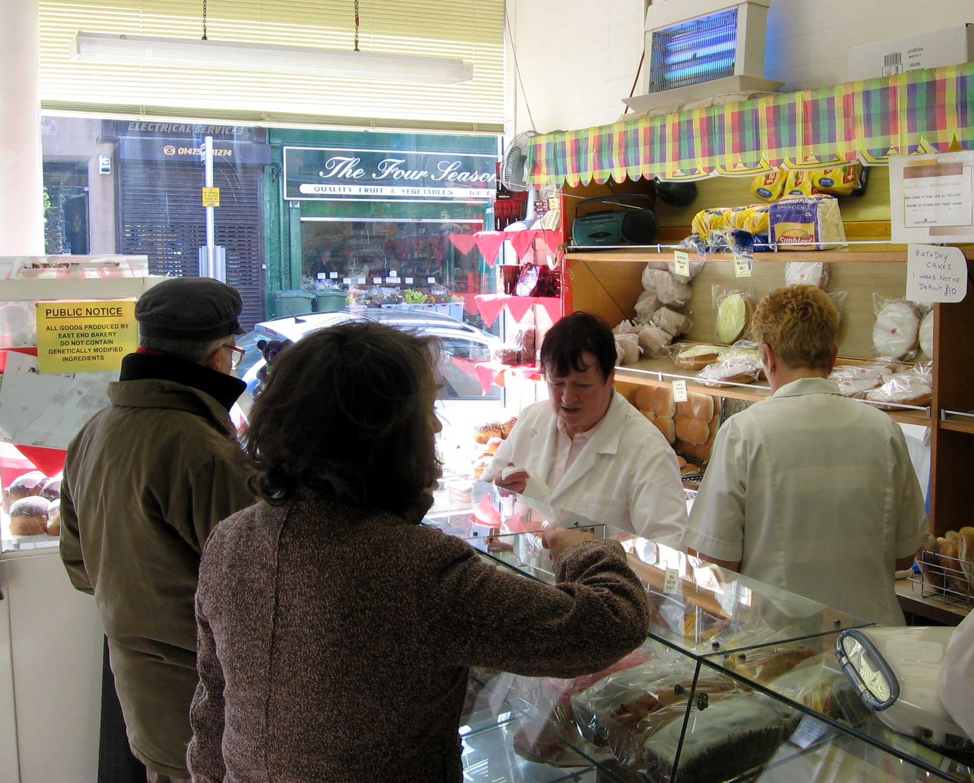 Baker's shop in Kempock Street, Gourock, Scotland photograph taken on 18 March 2006 by User:Dave souza. Any re-use to contain this licence notice and to attribute the work to User:Dave souza at Wikipedia.